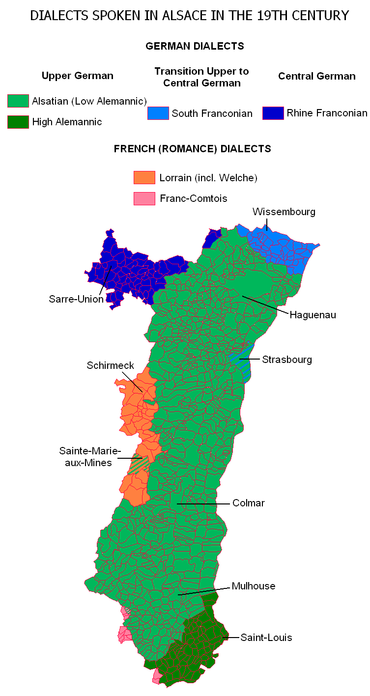 Created map myself. Sources: :de:Grenzorte des alemannischen Dialektraums and historical maps at